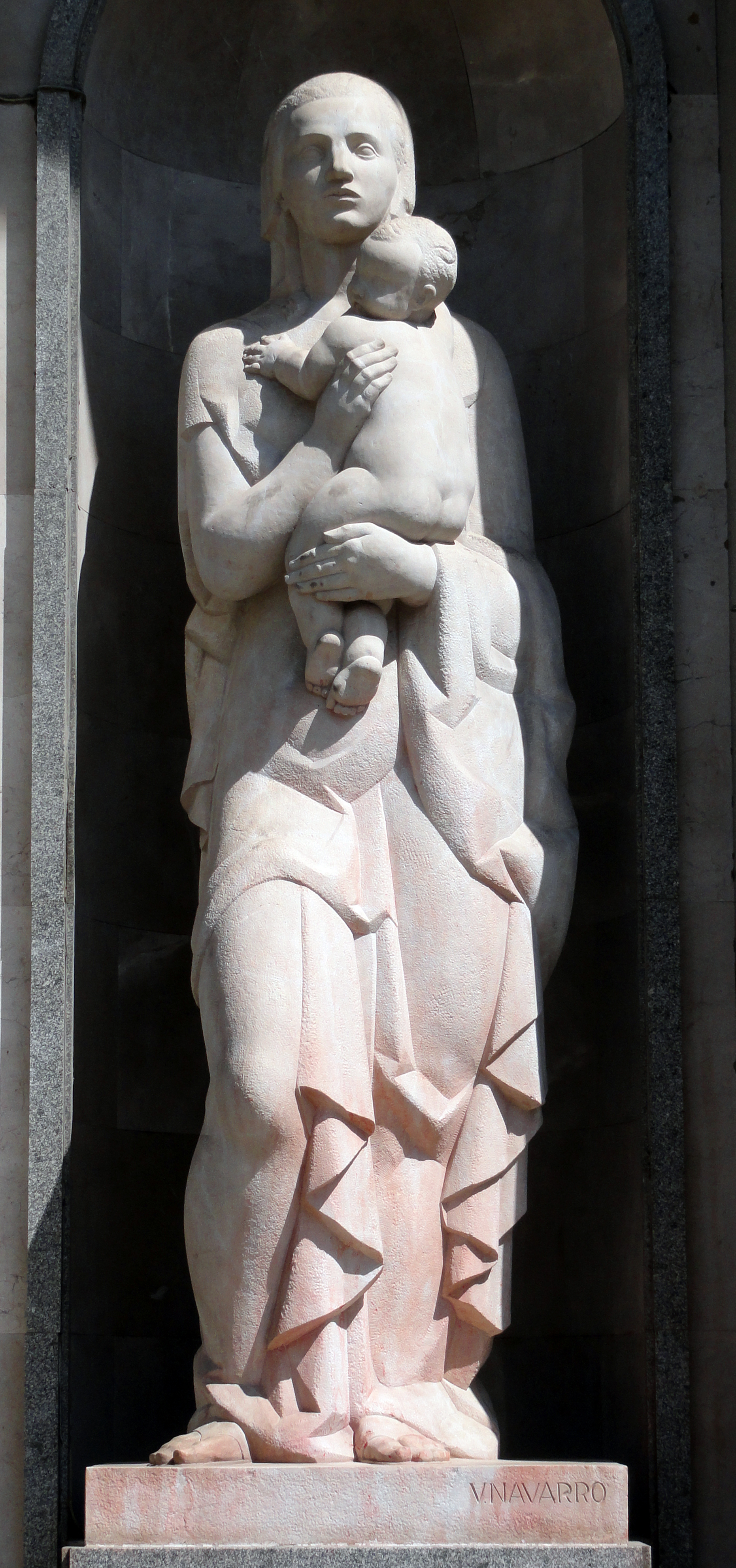 Vicenç Navarro Romero, sculpture, stone, approximately 240 cm, Passeig de Sant Joan 102, Barcelona